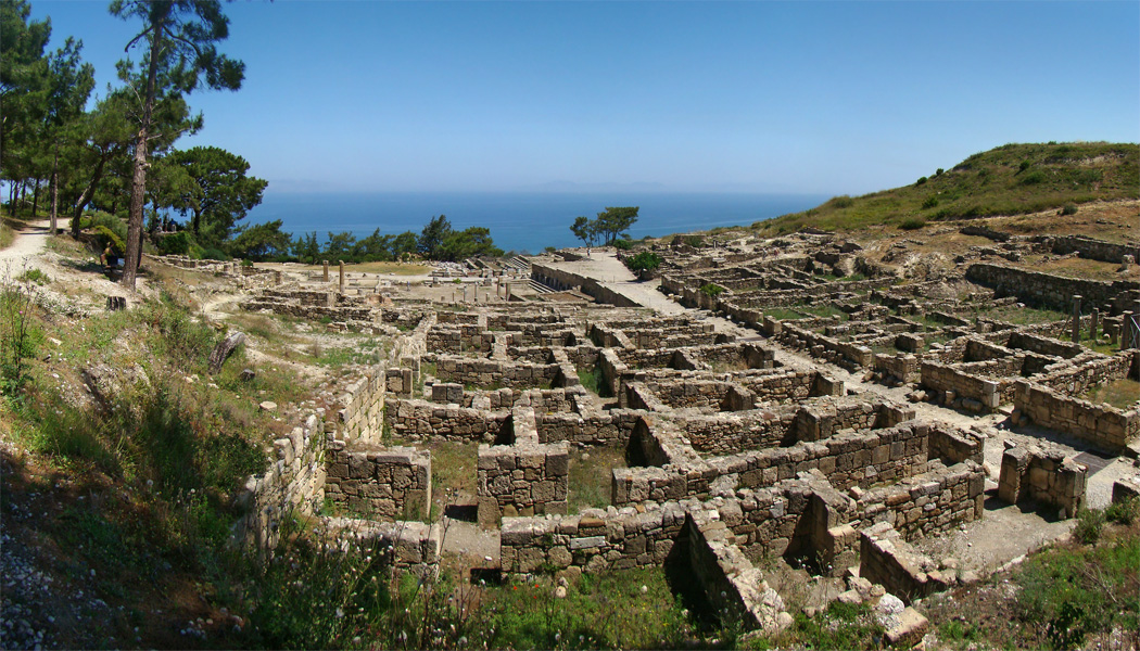 Ancient Kameiros, Rhodes, Greece.